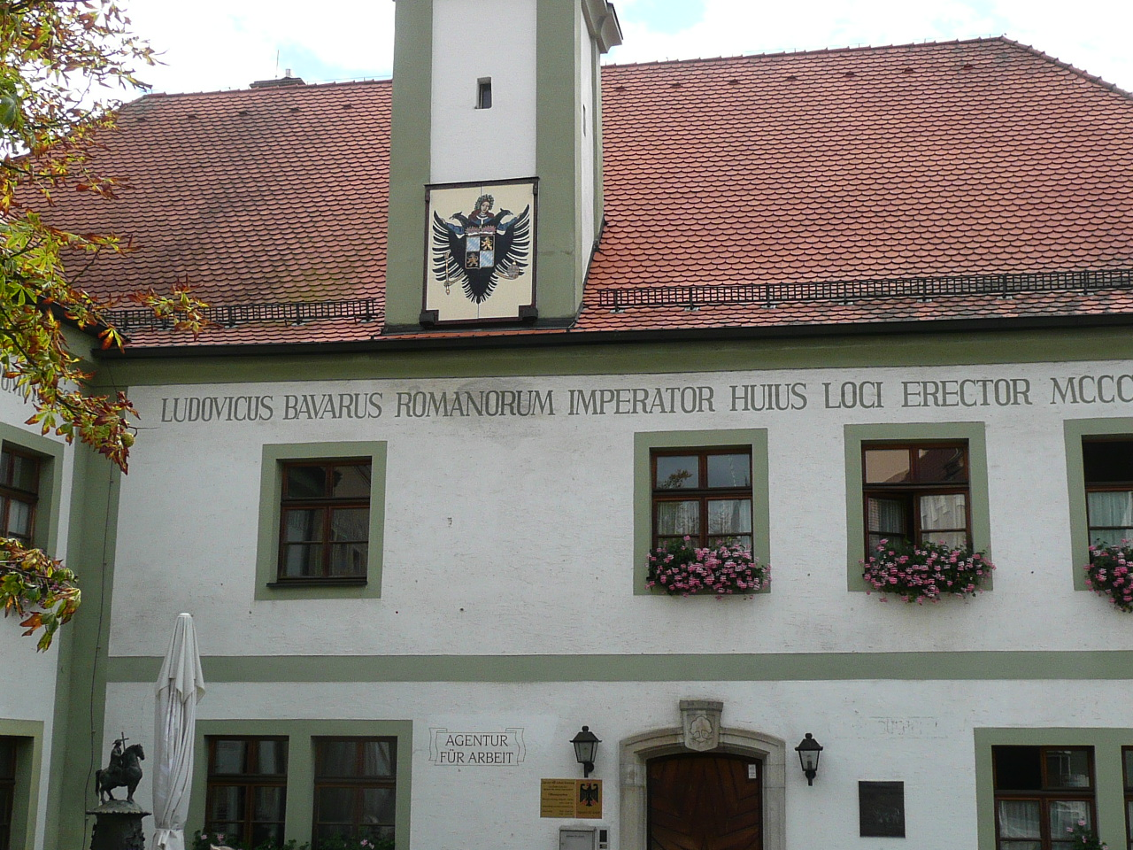 Historical monument at Bad Kötzting - LUDOVICUS BAVARUS ROMANORUM IMPERATOR ...